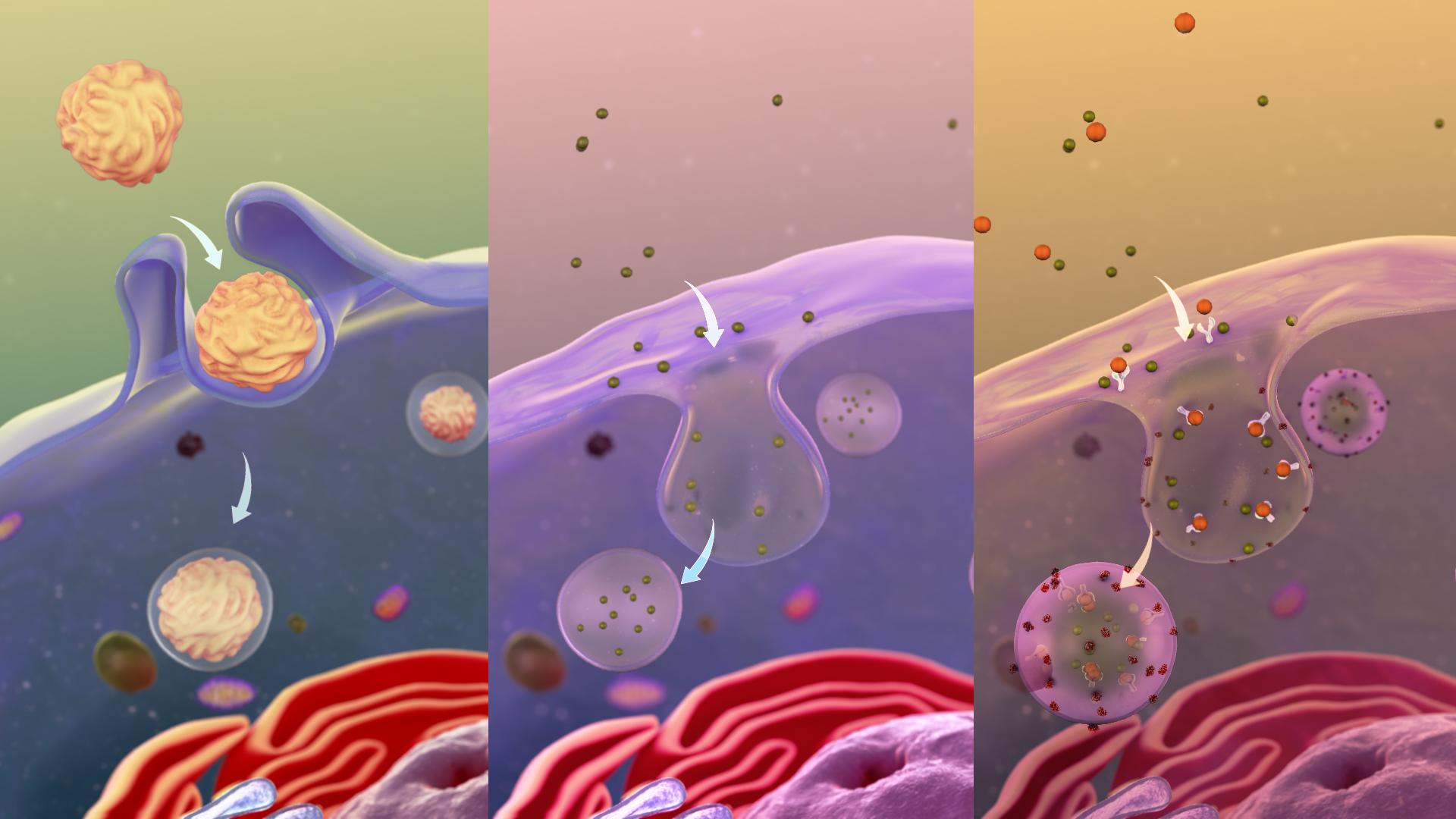 A depiction of various types of endocytosis.